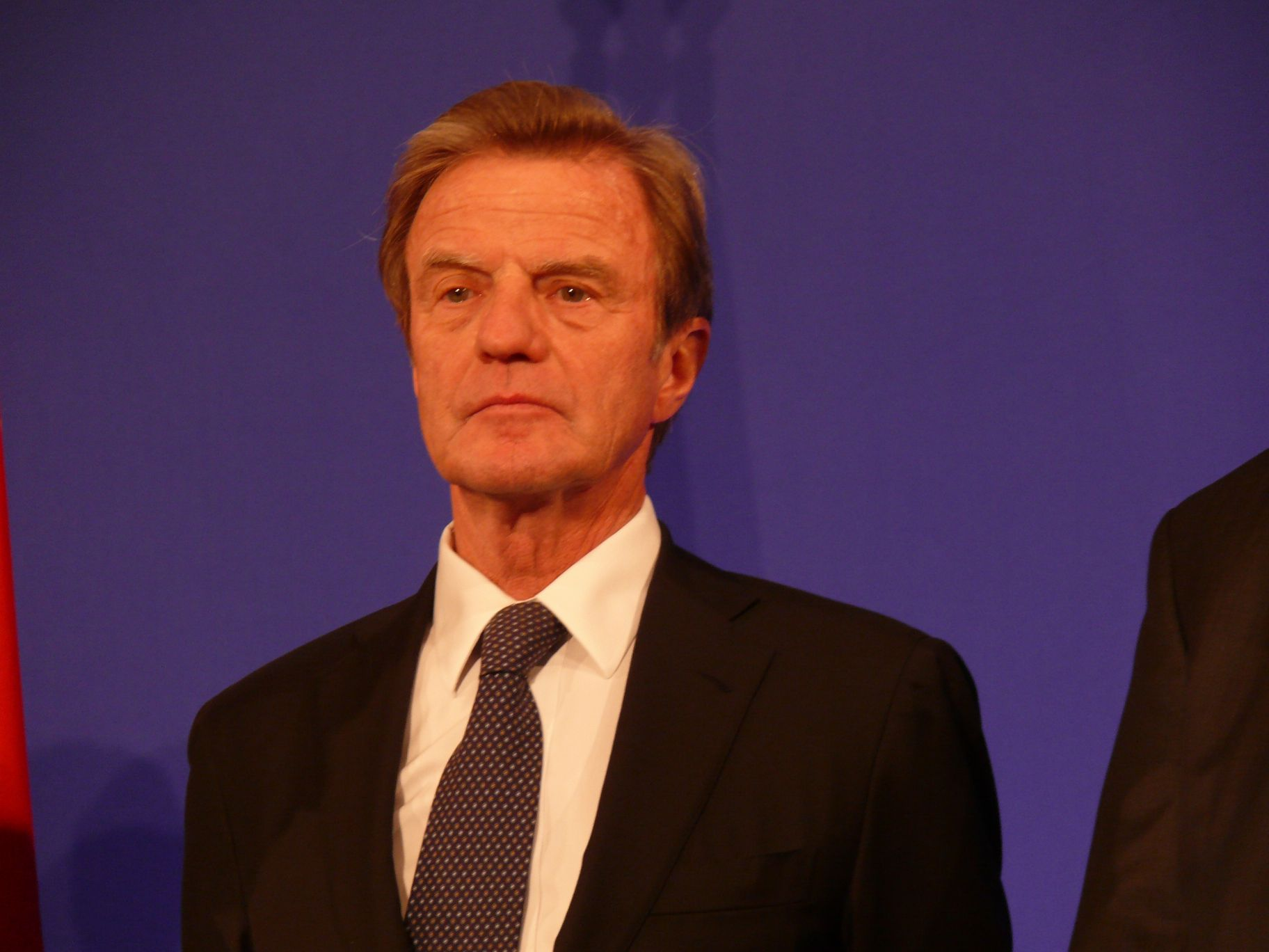 Meeting by President Nicolas Sarkozy on April 30th 2010 at Hyatt on the Bund Hotel in Shanghai (China)